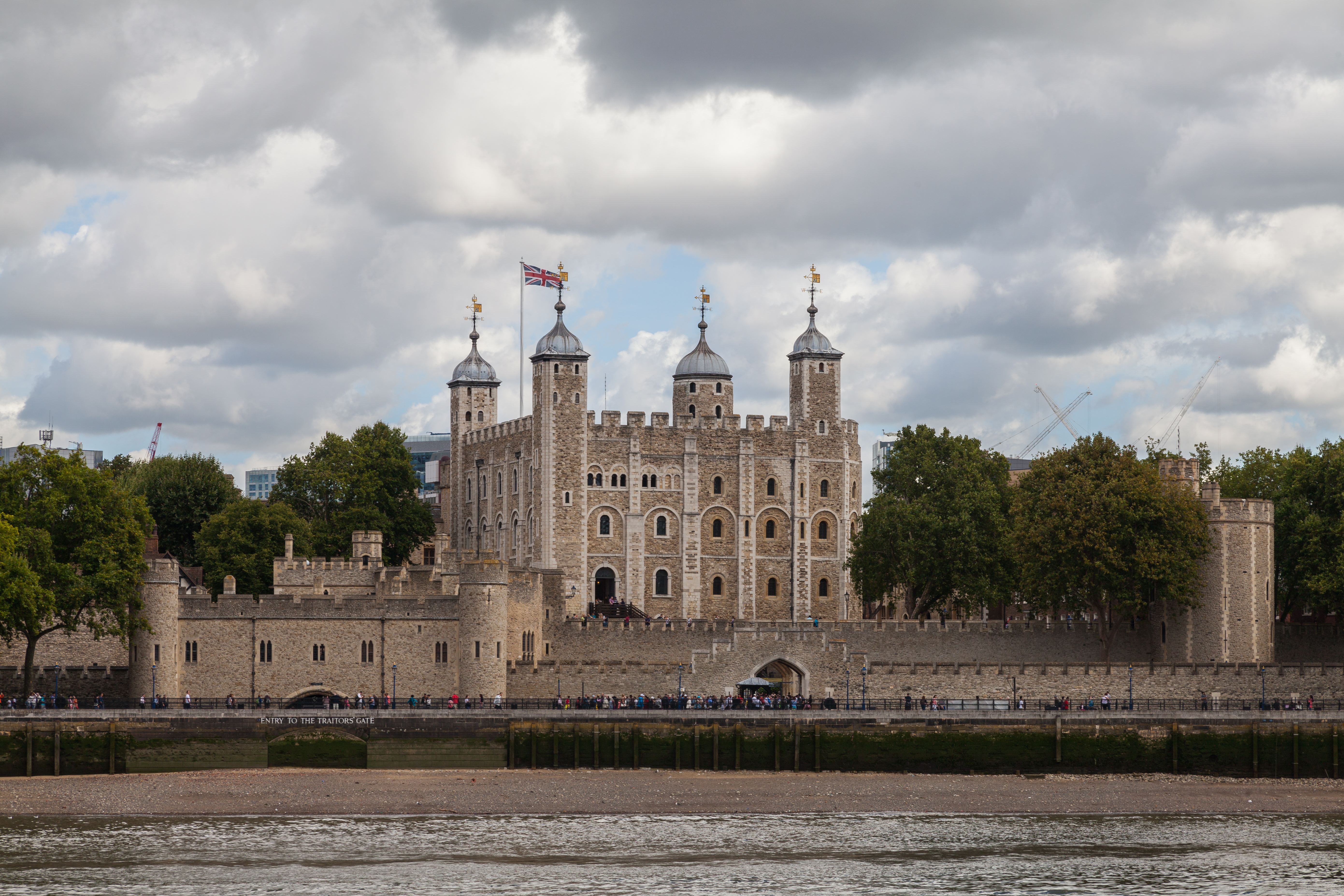 The Tower, London, England